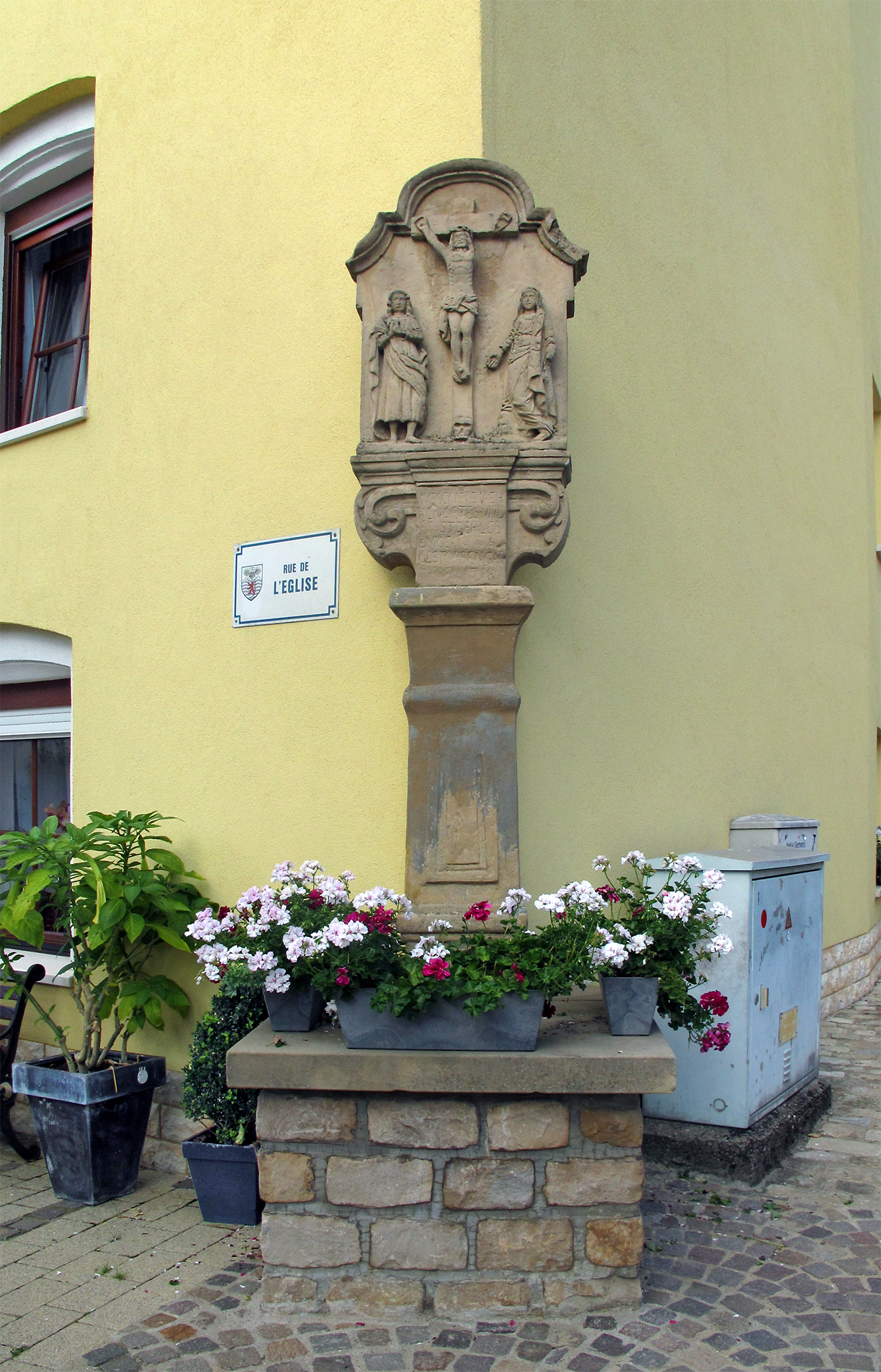 Wayside cross in Wellenstein, rue de l'Église opposite of the church